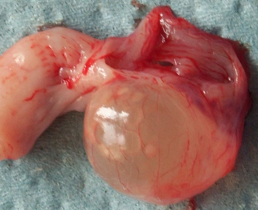 ovarial cyst in a cat